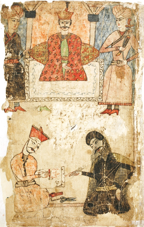 "Rustaveli dictates his poem to a chancellor". A miniature from the 17th century manuscript of Rustaveli's "Knight in the Panther's Skin". Levan II Dadiani, Prince of Mingrelia, who commissioned a manuscript from Mamuka Tavaqarashvili, is seen at the top.